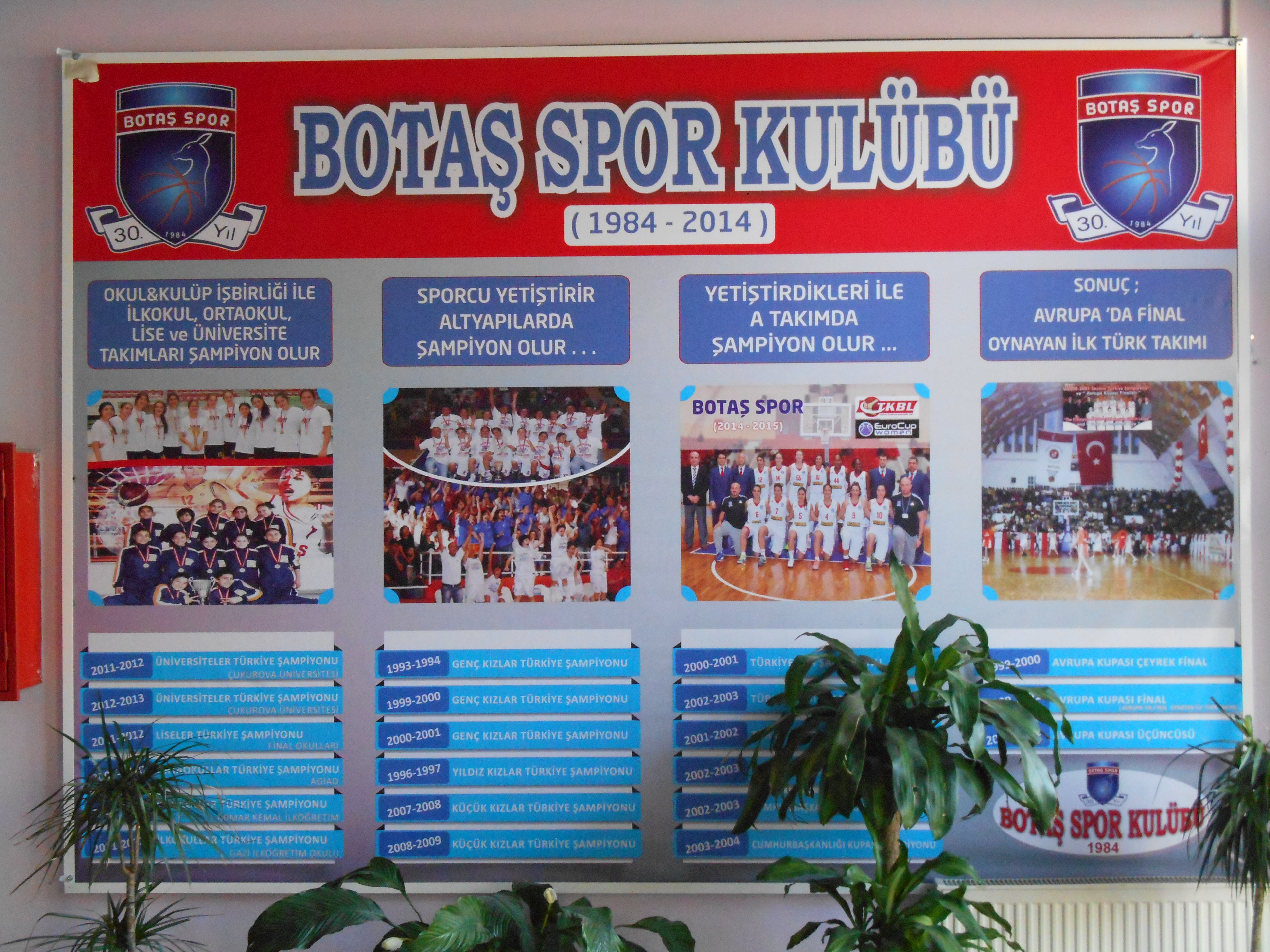 Botaş SK Honours Wall